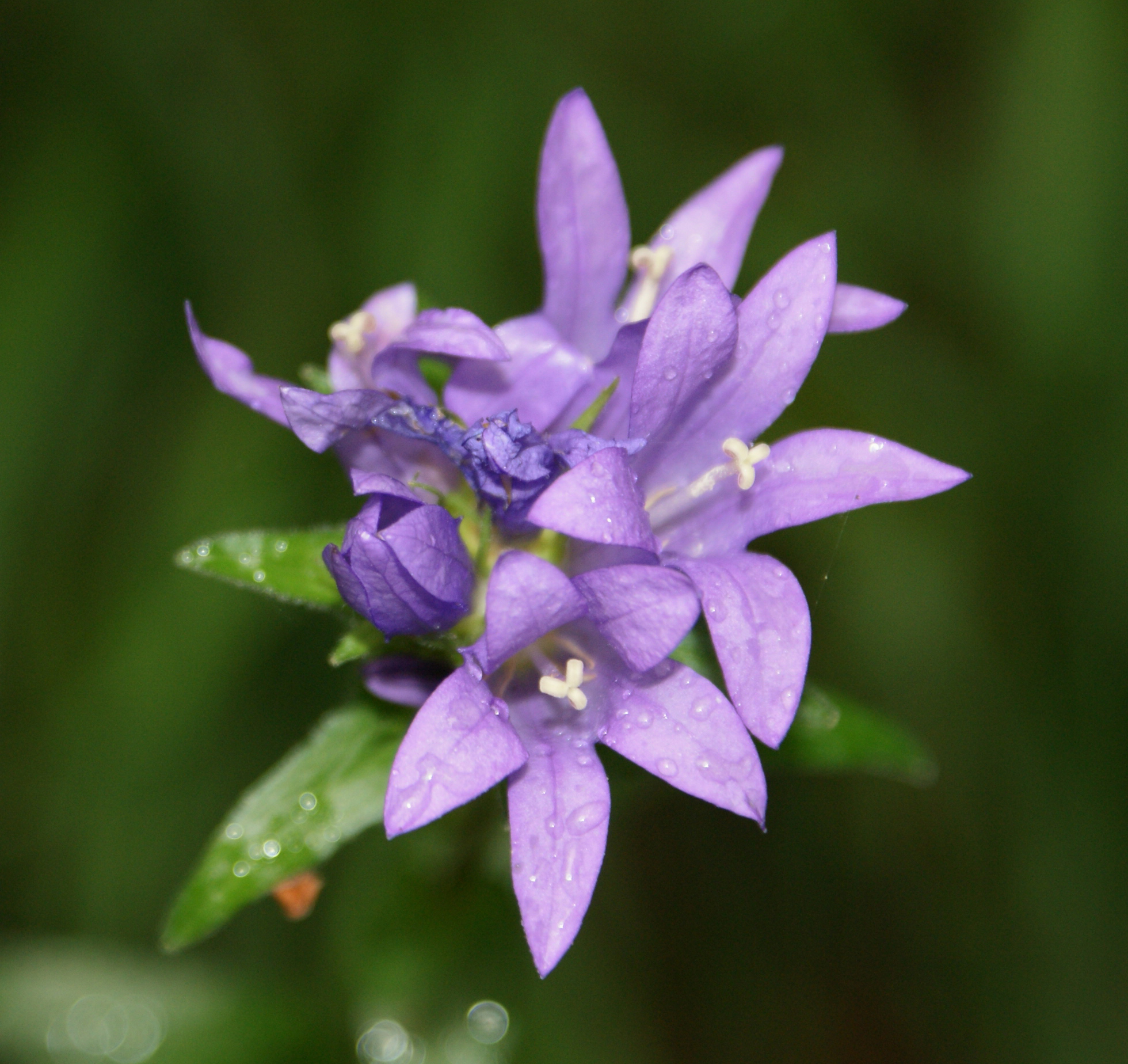 Campanula glomerata, Wda Landscape Park, Poland.